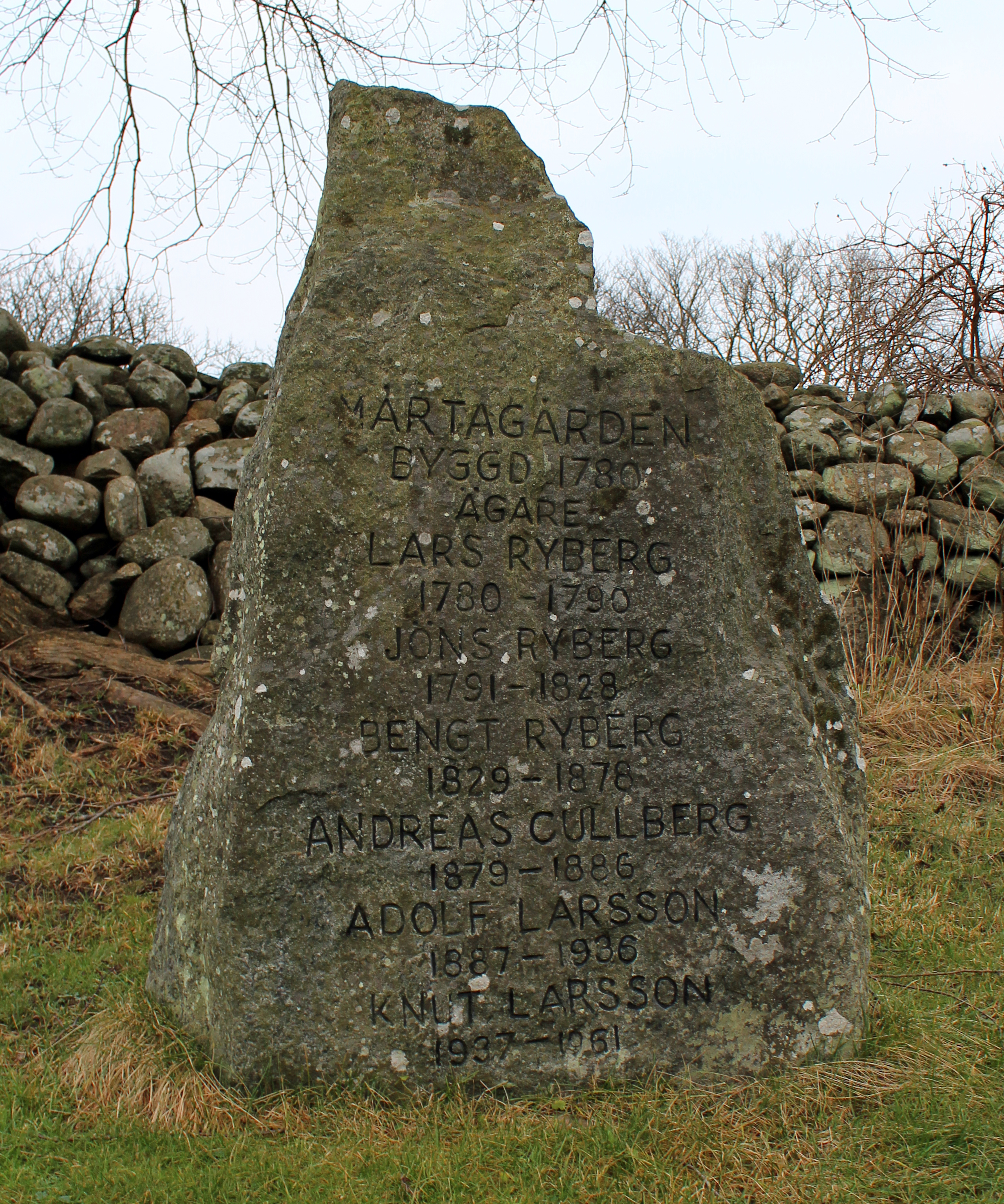 A memorial stone in the garden of Mårtagården in Onsala, Halland, Sweden.